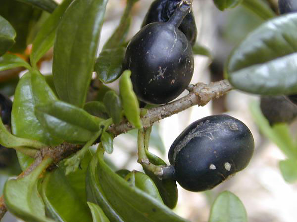 Alyxia oliviformis, fruits - (=Alyxia stellata) - Auwahi, Maui, Hawaii.